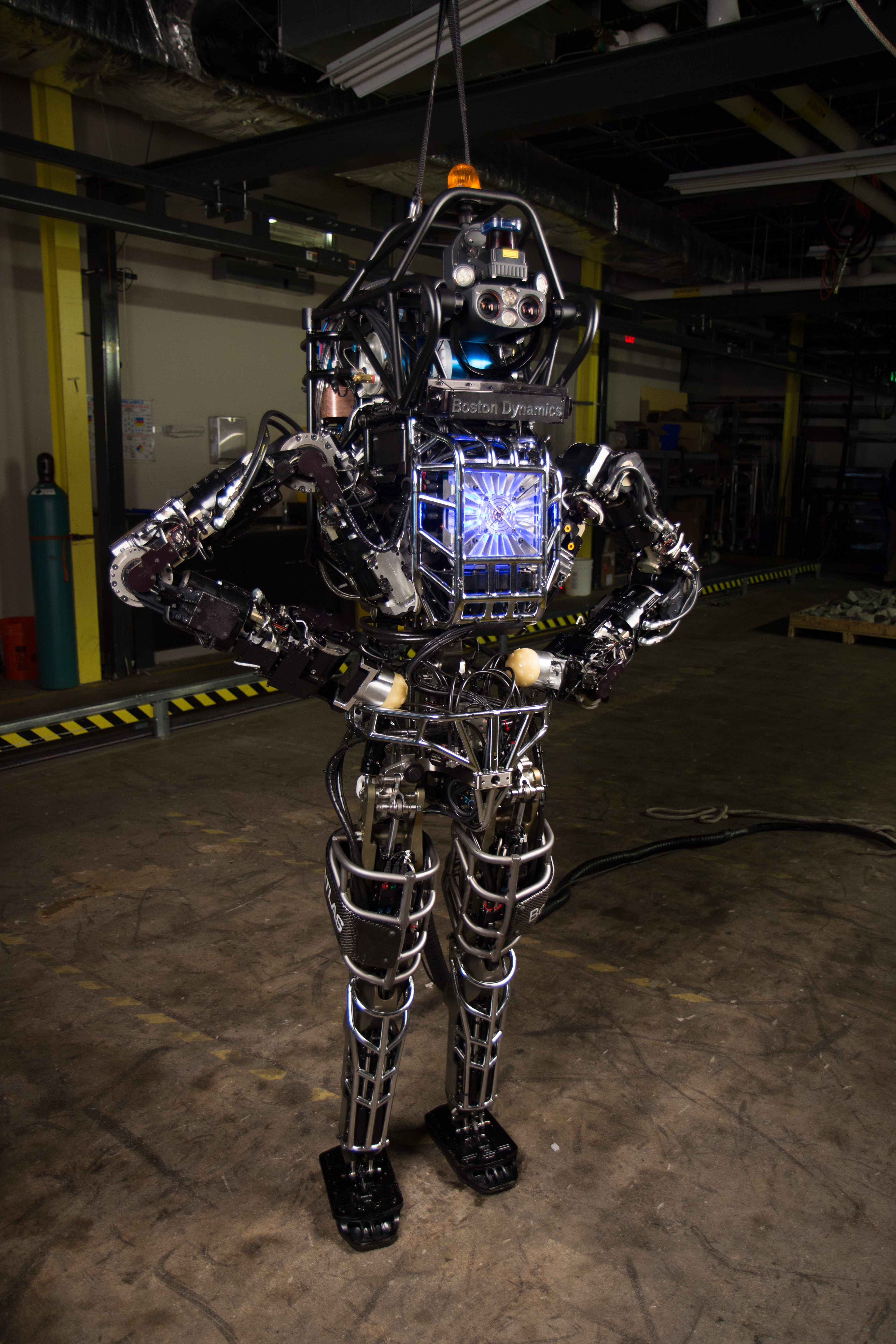 The Atlas robot, created by Bostron Dynamics and DARPA, stands during testing. The robot's hands have not been attached yet.